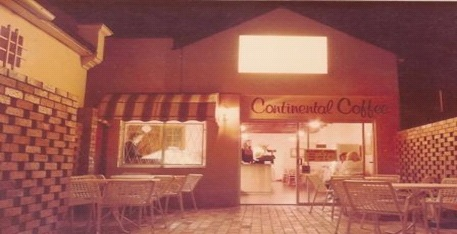 First ever Dulce Cafe opened in PE